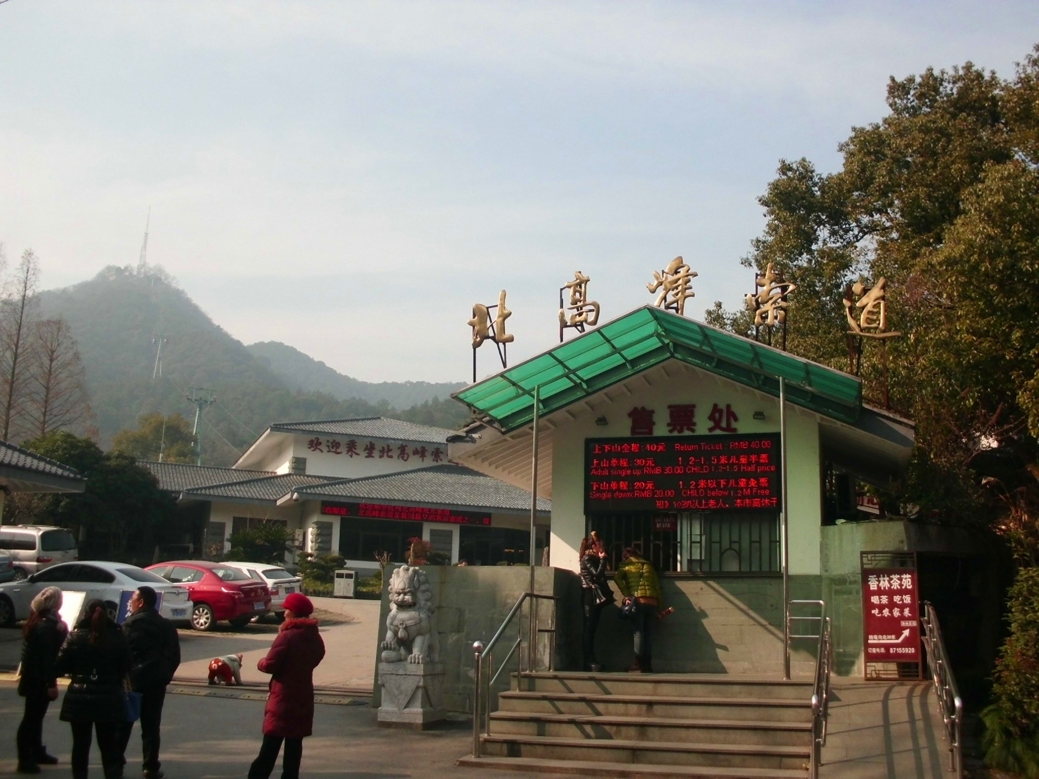 Lingyin Temple